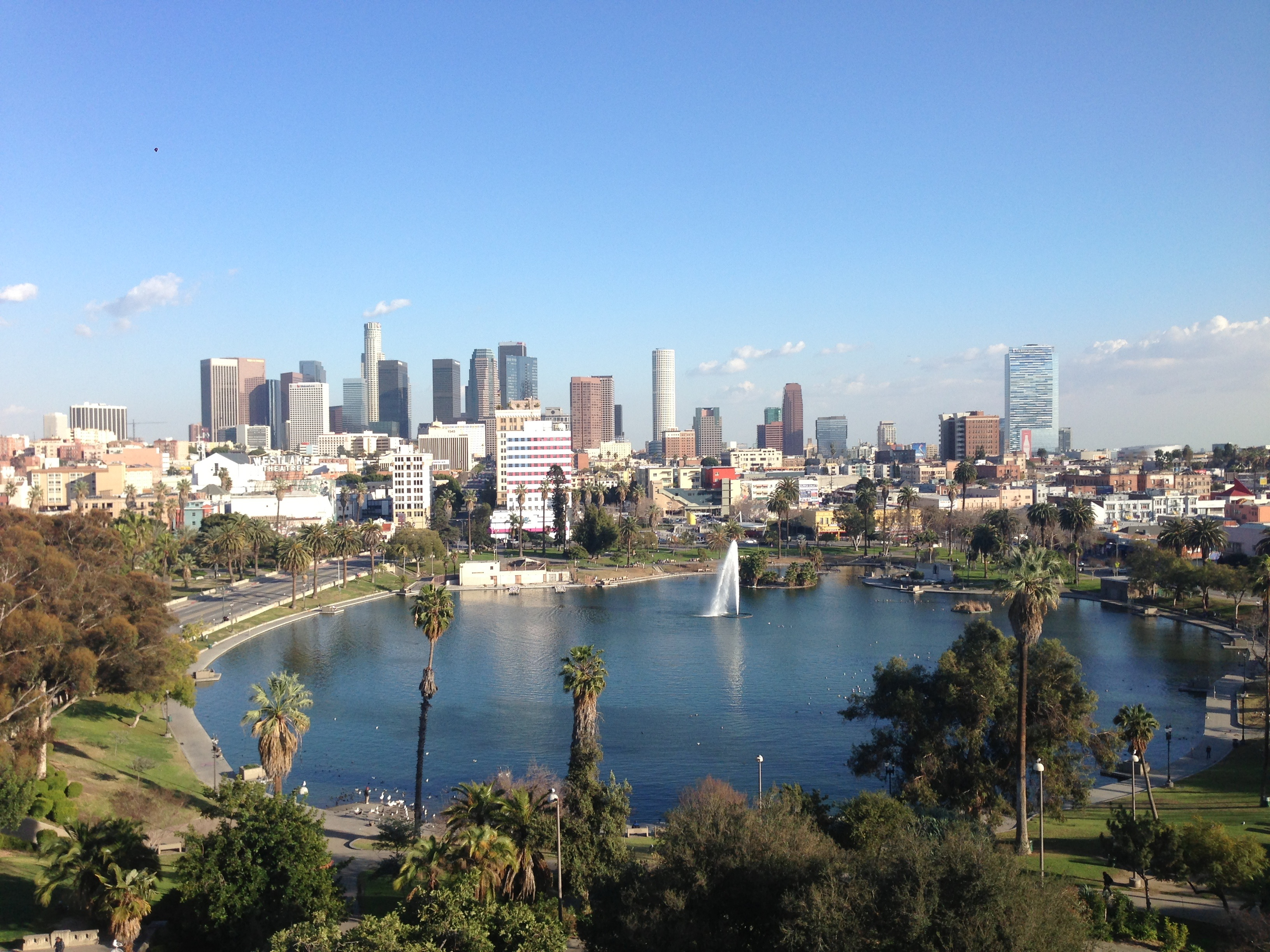 MacArthur Park Lake